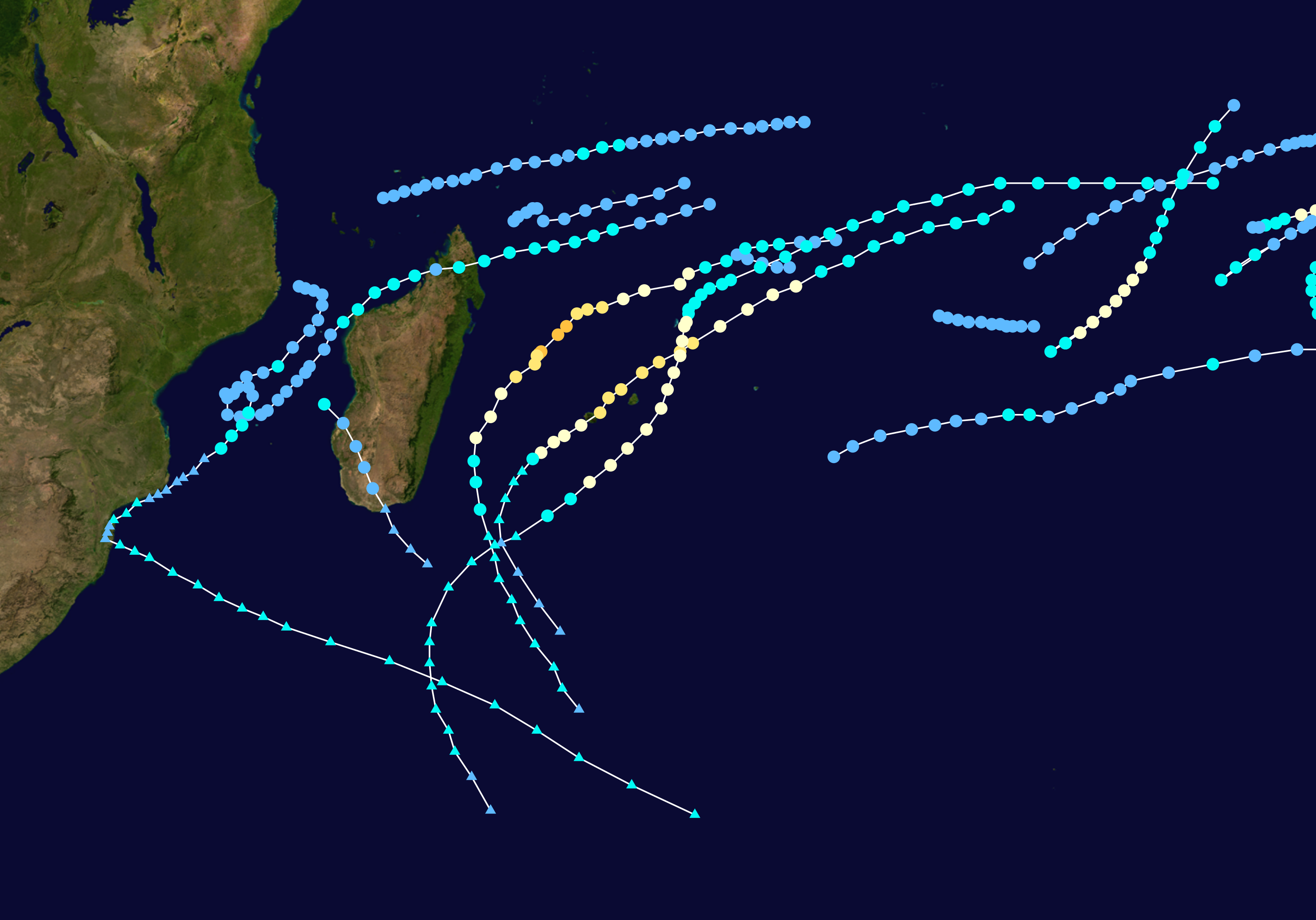 This map shows the tracks of all tropical cyclones in the 1965-66 South-West Indian Ocean cyclone season. The points show the location of each storm at 6-hour intervals. The colour represents the storm's maximum sustained wind speeds as classified in the Saffir-Simpson Hurricane Scale (see below), and the shape of the data points represent the type of the storm. Saffir–Simpson scale Tropical depression≤38 mph≤62 km/h Category 3111–129 mph178–208 km/h Tropical storm39–73 mph63–118 km/h Category 4130–156 mph209–251 km/h Category 174–95 mph119–153 km/h Category 5≥157 mph≥252 km/h Category 296–110 mph154–177 km/h Unknown Storm typeTropical cycloneSubtropical cycloneExtratropical cyclone / Remnant low / Tropical disturbance